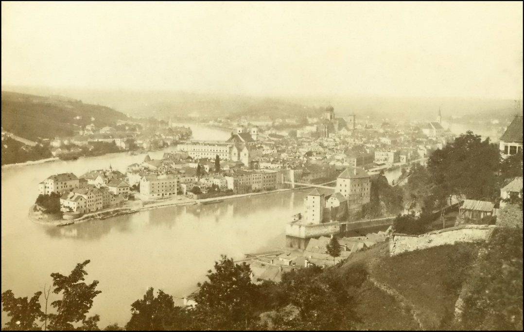 Passau 1892. old photo